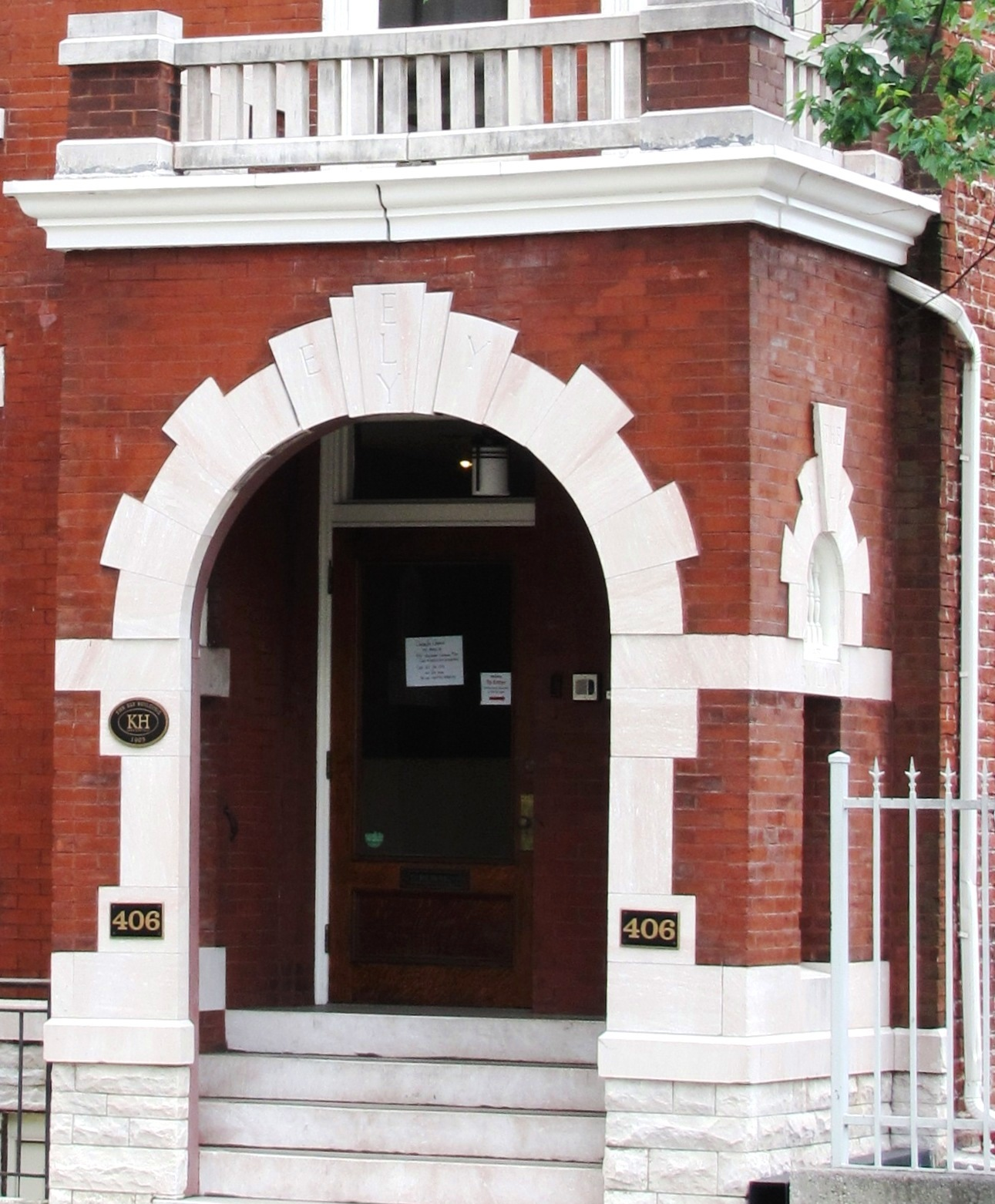 Projecting arched entrance of the Ely Building (406 Church Avenue) in Knoxville, Tennessee, USA. The Ely Building, constructed in 1903, is now a contributing property within the NRHP-listed South Market Historic District.